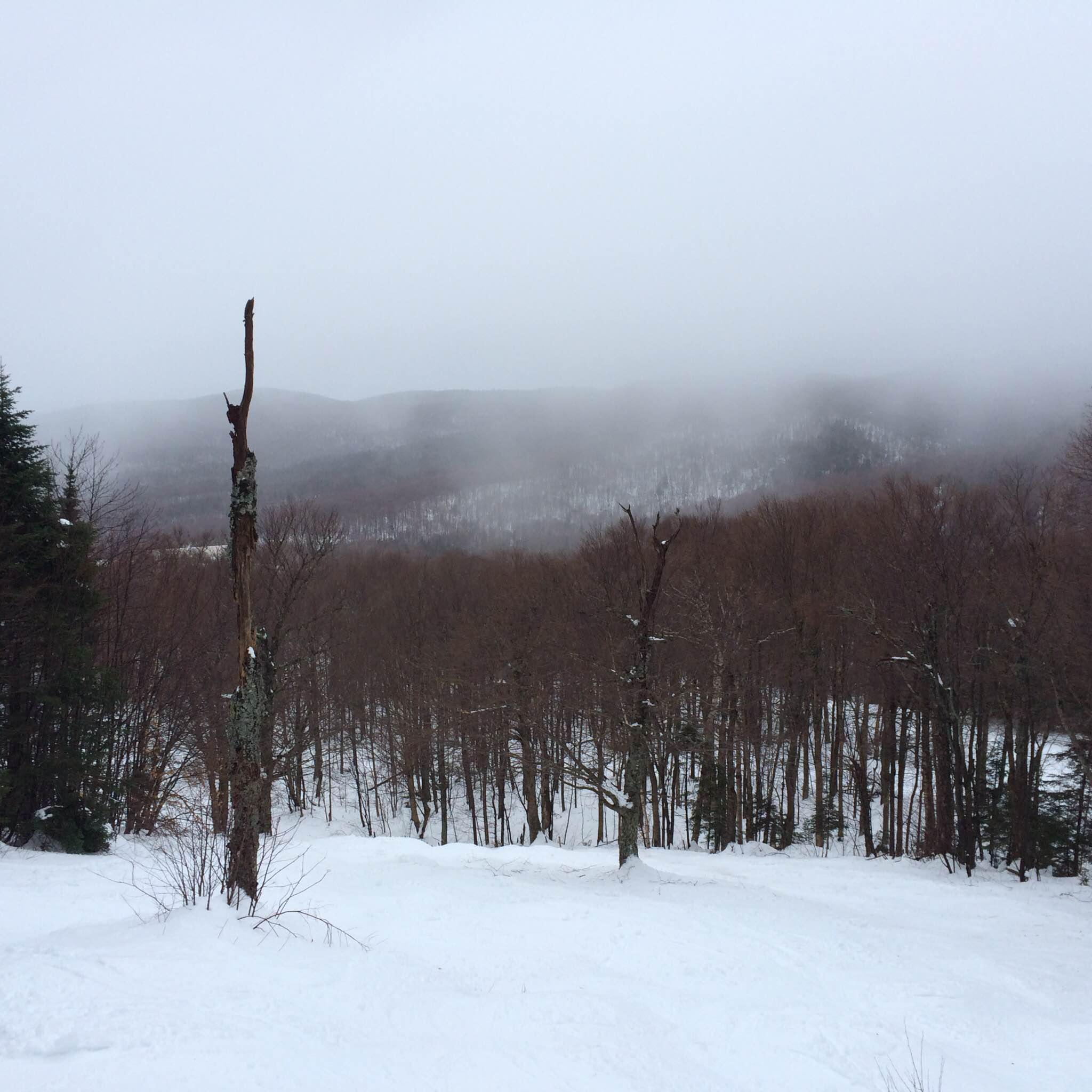 Bolton Valley Resort, December 2014